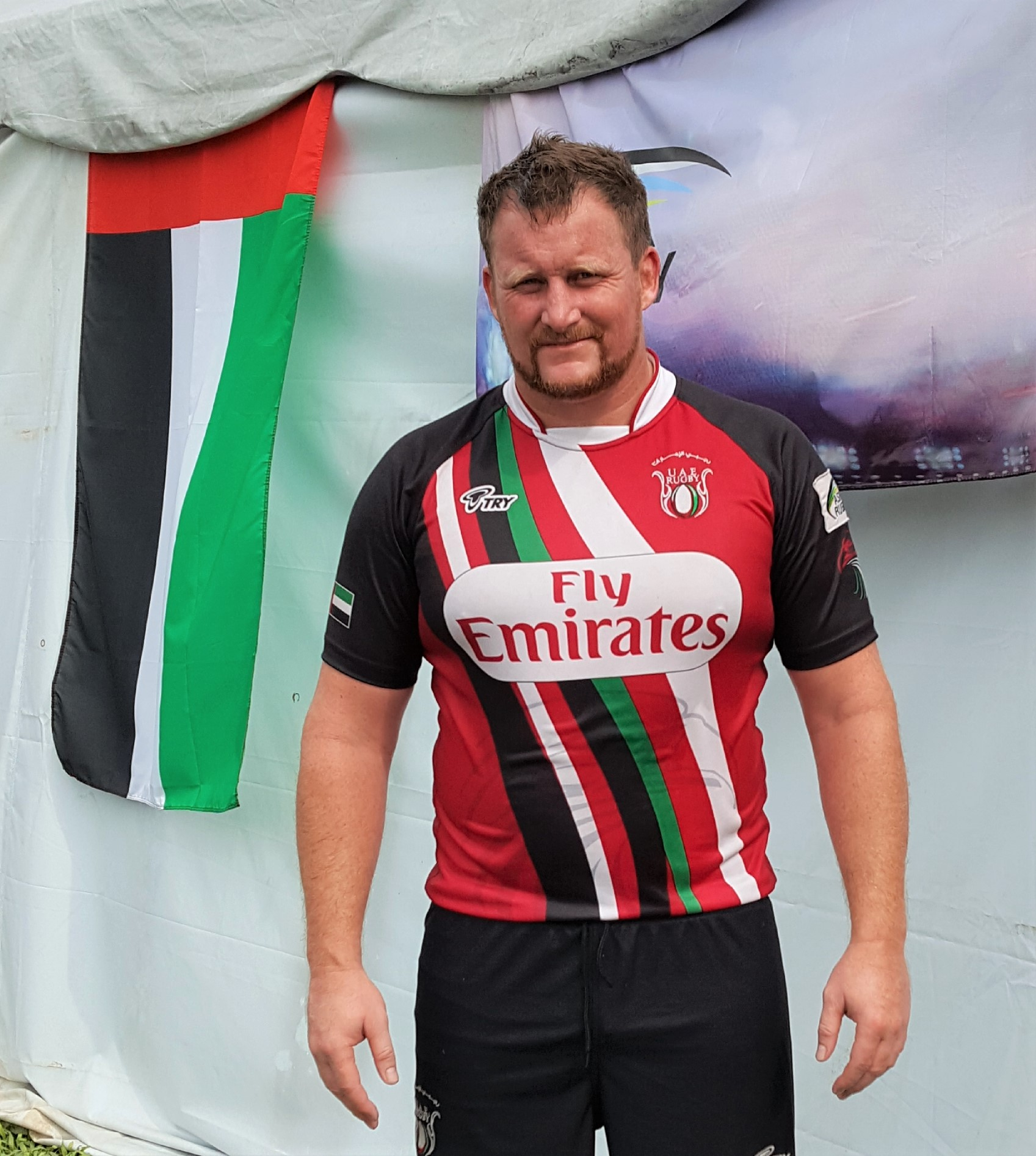 Winston Cowie rugby - UAE representative